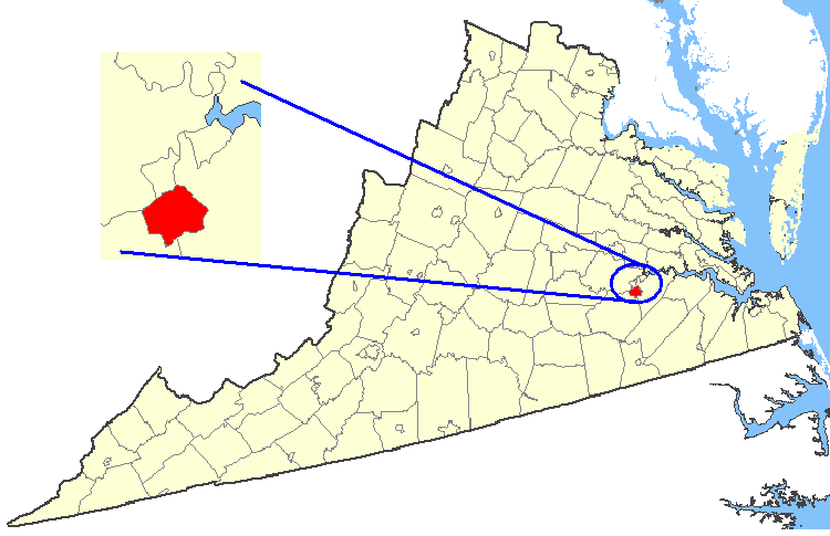 Maps of counties in Virginia